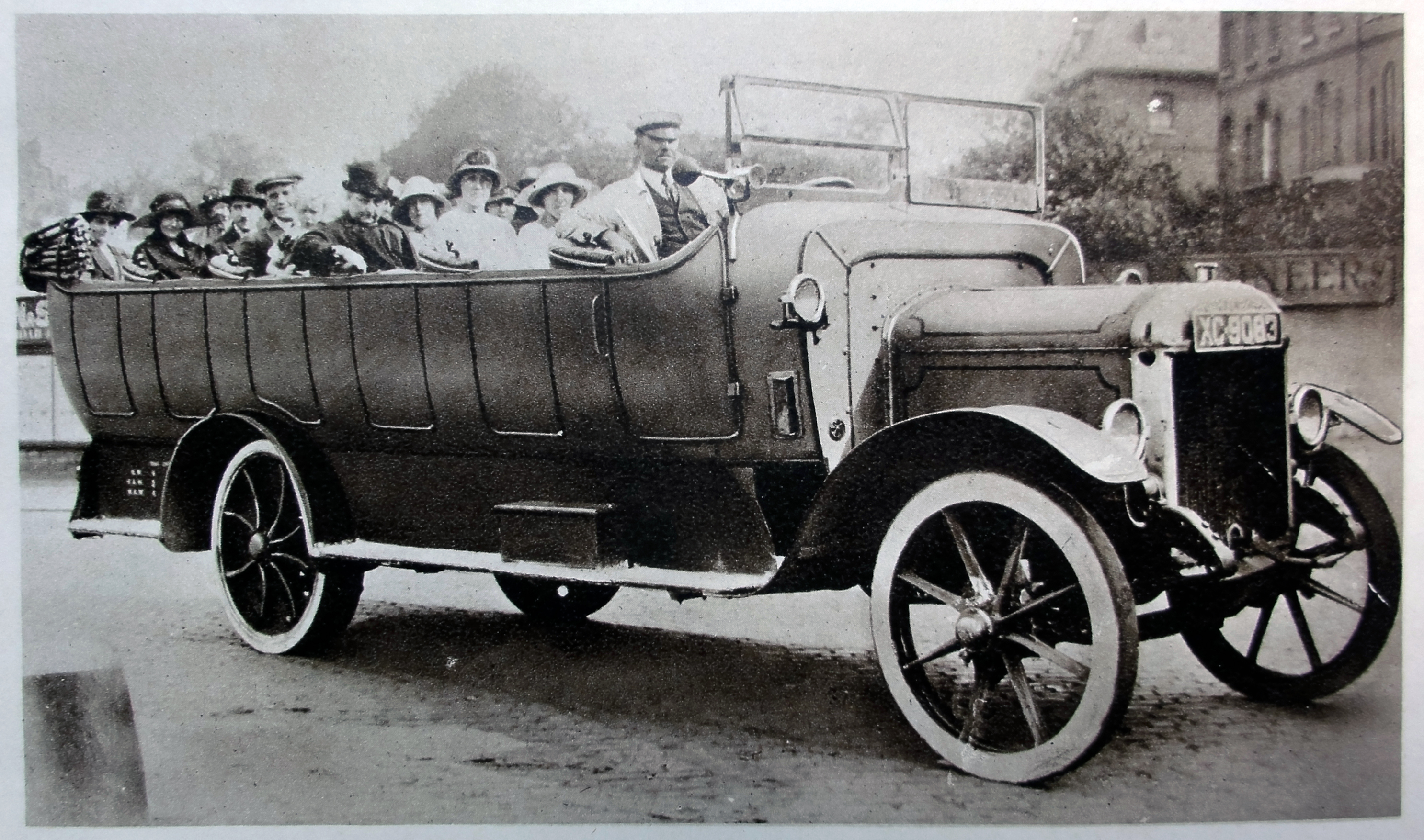 Motorized Charabanc of 1920s. Photo in the Book of Knowledge, 1924. OCLC: 60401094